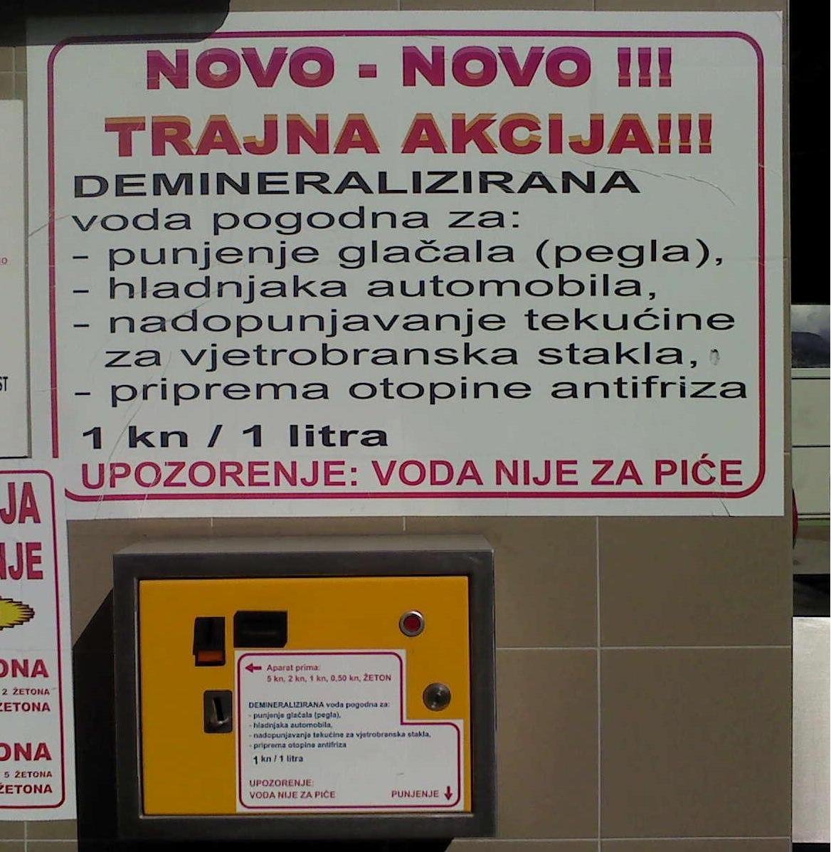 demineralised water